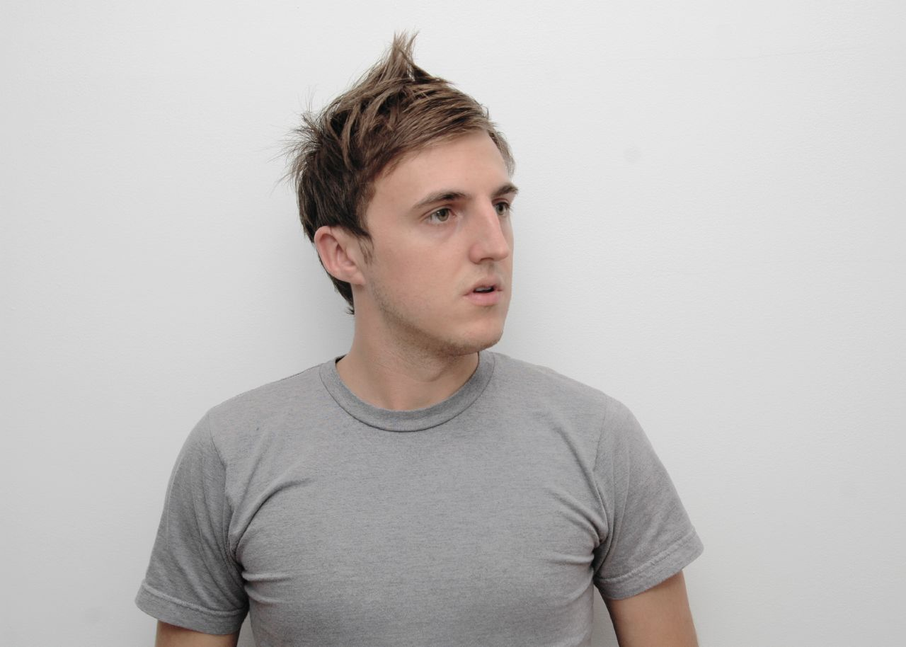 Zach Klein, co-founder of Vimeo Original image description: I specialize in interface design and user behavior. Born September 26, 1982, I spent my first 10 years in Upstate New York before my family moved to Fort Wayne, Indiana. This is the most important thing that ever happened to me. Being so young, I thought Indiana might still be a wild frontier complete with vast landscapes and roaming pack animals. Although my hopes proved to be naive (e.g. People there don't HAVE to hunt for food -- they can shop at Wal-Mart), my experience in Indiana spurred a fondness for innocence and unsettlement. I still pretend and brag of Indiana being the boundary of American civilization. For fun, I prefer field, water, and wilderness sports, traveling, photography, and TV shows on DVD. I also like garage sales.